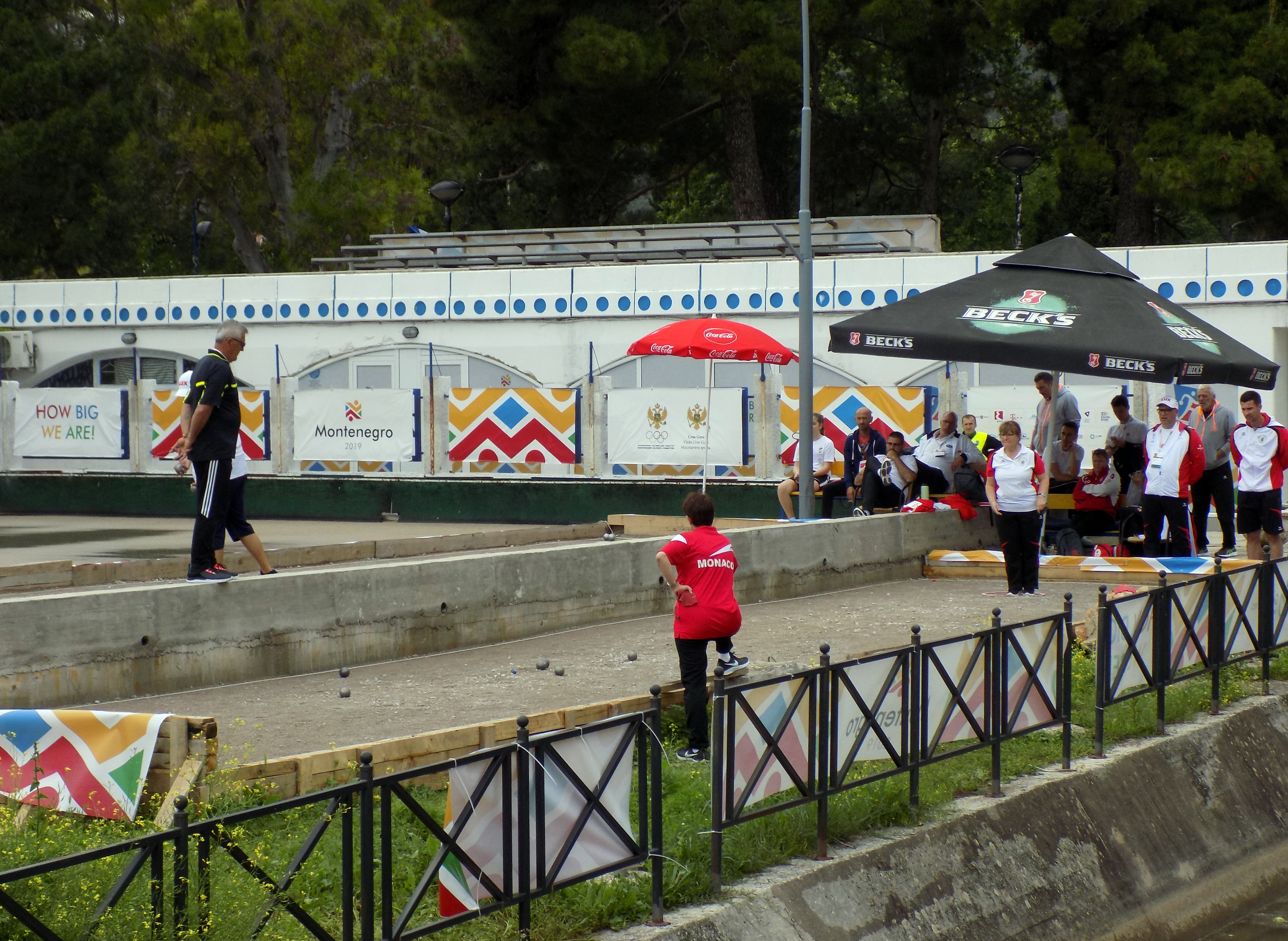 Boules on 2019 Games of the Small States of Europe (May 29, Budva, Montenegro)